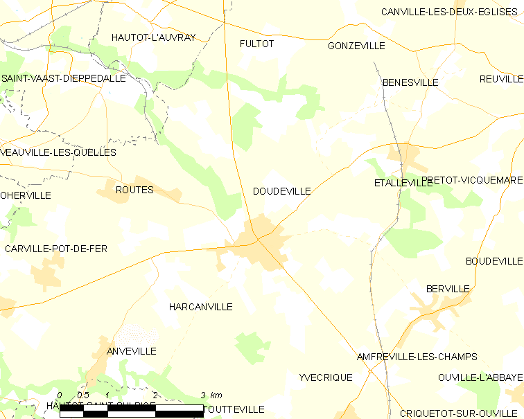 Map of French municipality Doudeville